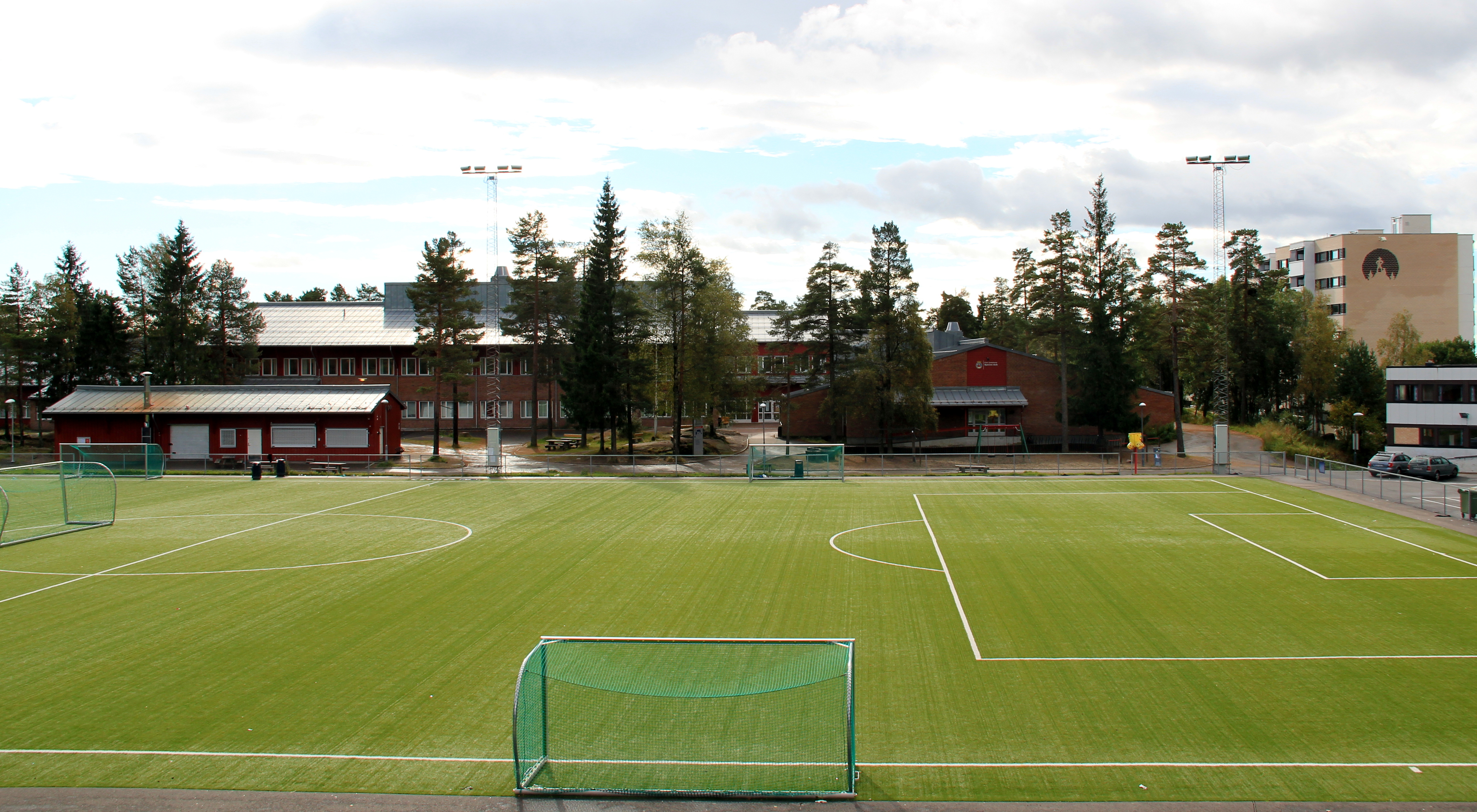 Bjøråsen kunstgress